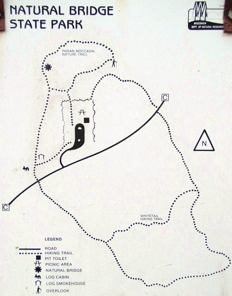 Map of Natural Bridge State Park, WI, USA